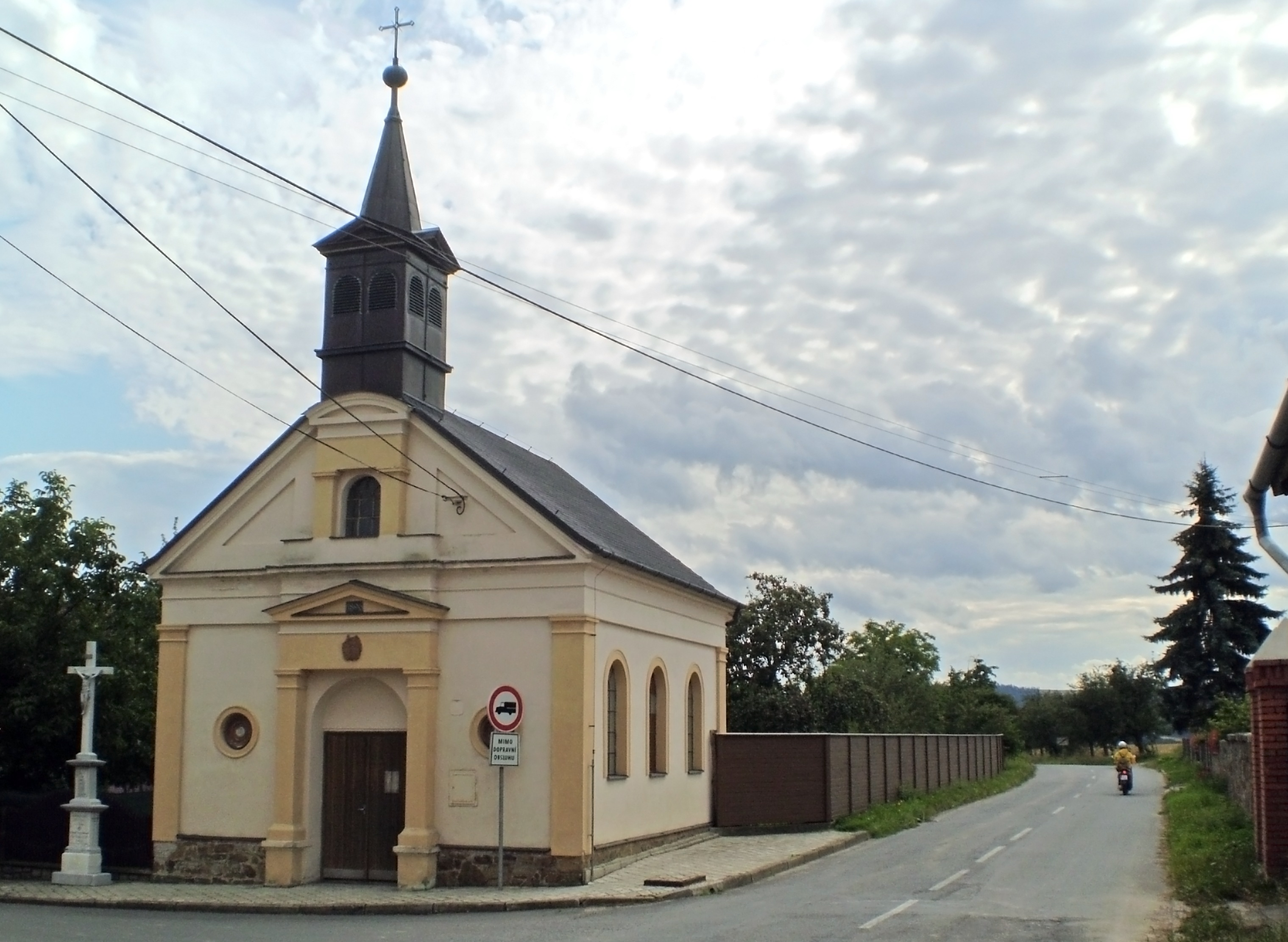 Chapel in village Hertice in Moravian-Silesian Region, Czech Republic.